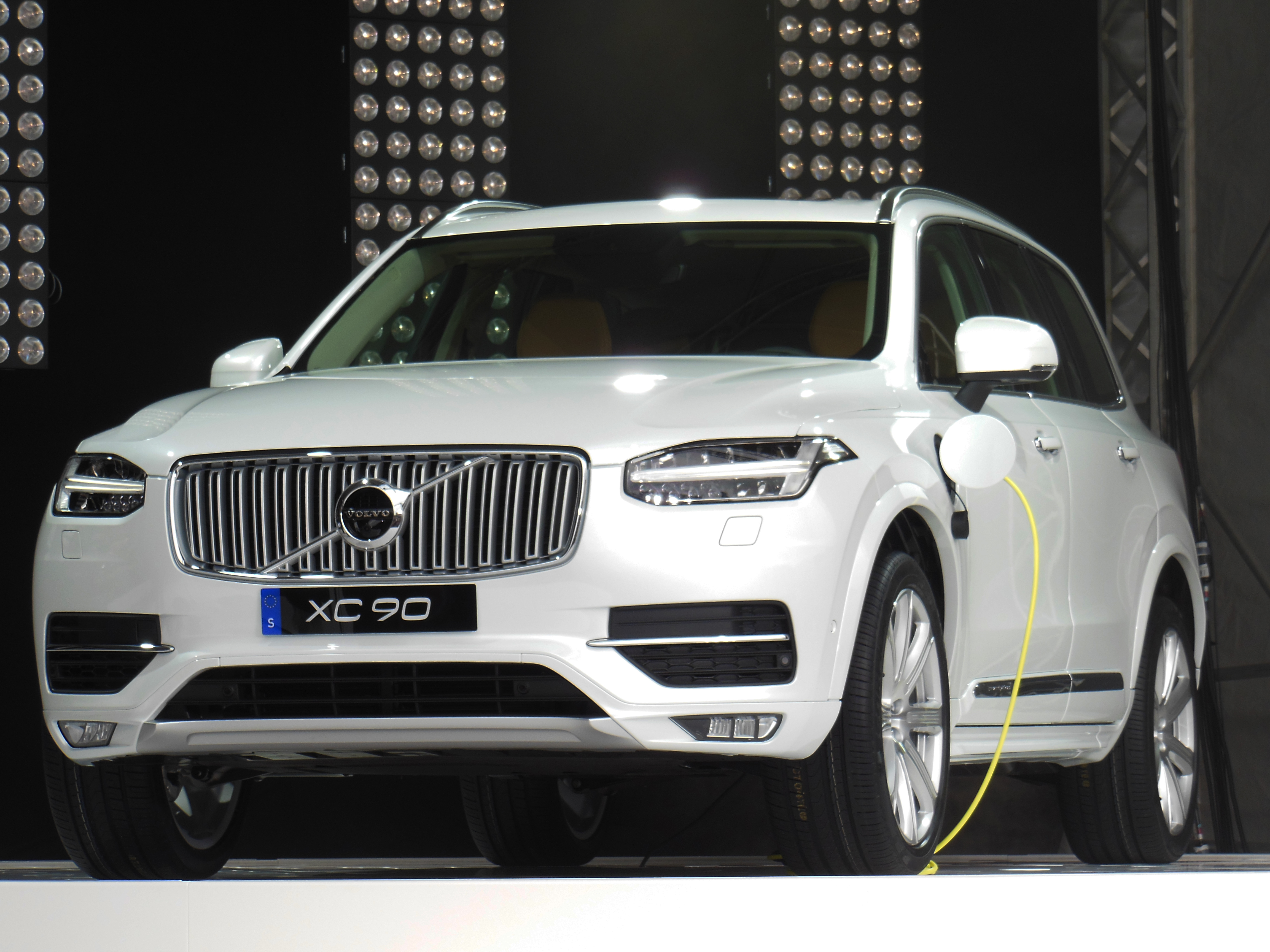 The second version of Volvo XC90 is presented at Gustaf Adolfs torg in Gothemburg, 31 August 2014. Shown the plug-in hybrid variant charging